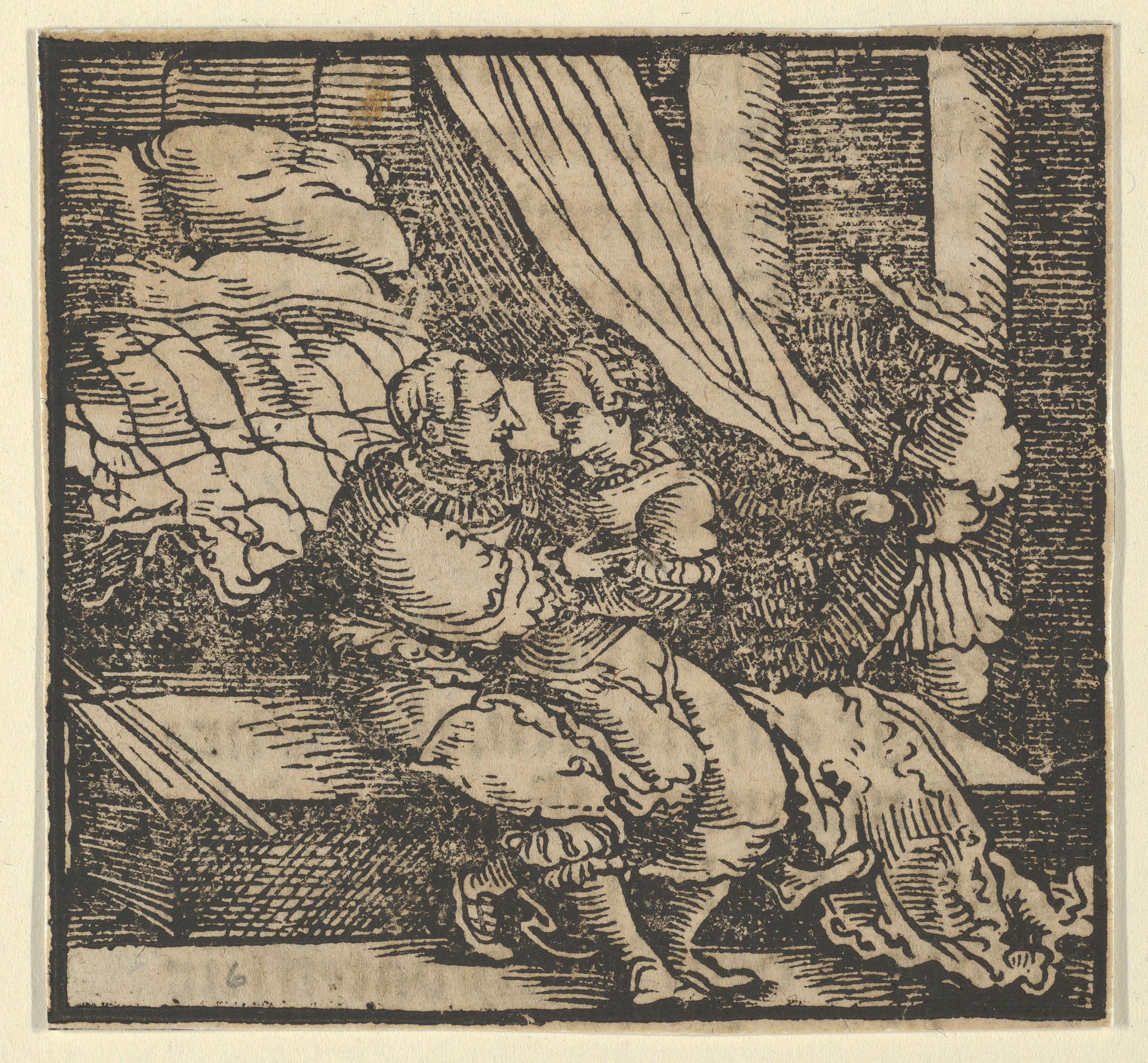 Print; Prints